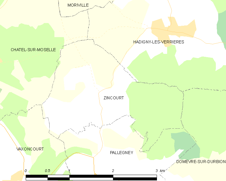 Map of French municipality Zincourt